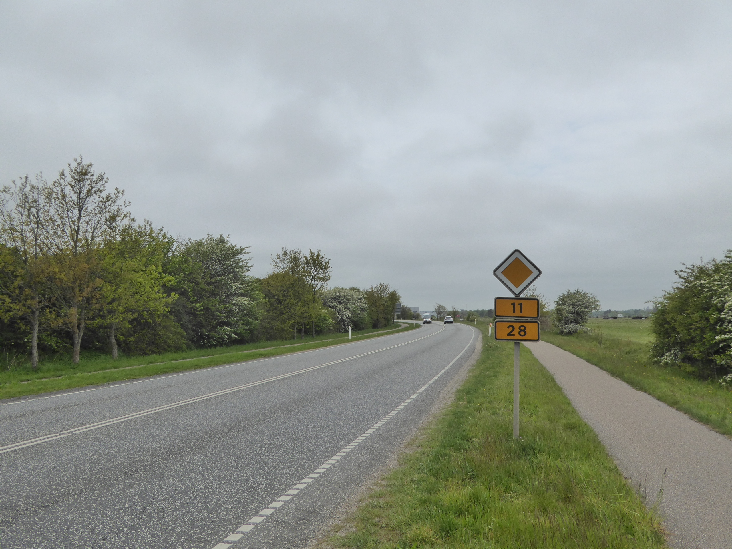 The road Ringvejen in Skjern in Denmark. It is a part of the national routes 11 from Sæd to Aalborg and 28 from Snoghøj to Lemvig.